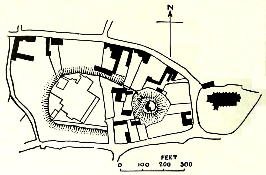 Plan of Eye Castle in 1911